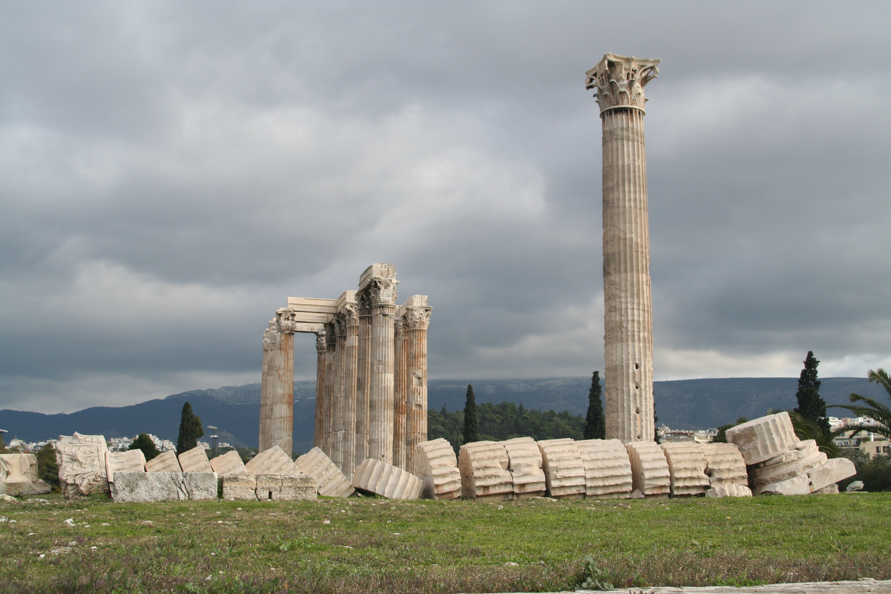 This is a picture of Temple of Olympian Zeus, taken in January 2006. A picture of the Temple of Olympian Zeus, from this angle it is possible to see the pillar that collapsed in 1852